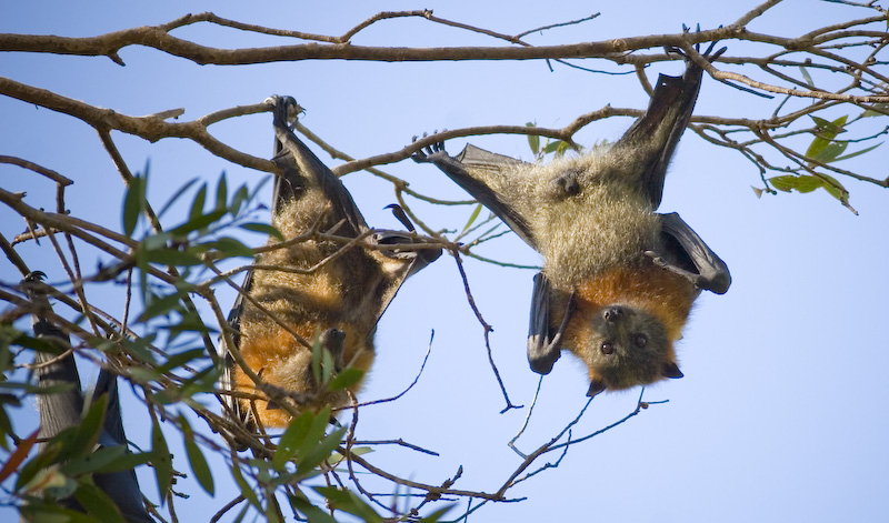 A shot of a Pteropus poliocephalus taken by Adam Myhill, north of Currumbin in Queensland Australia. More Pteropus photos here